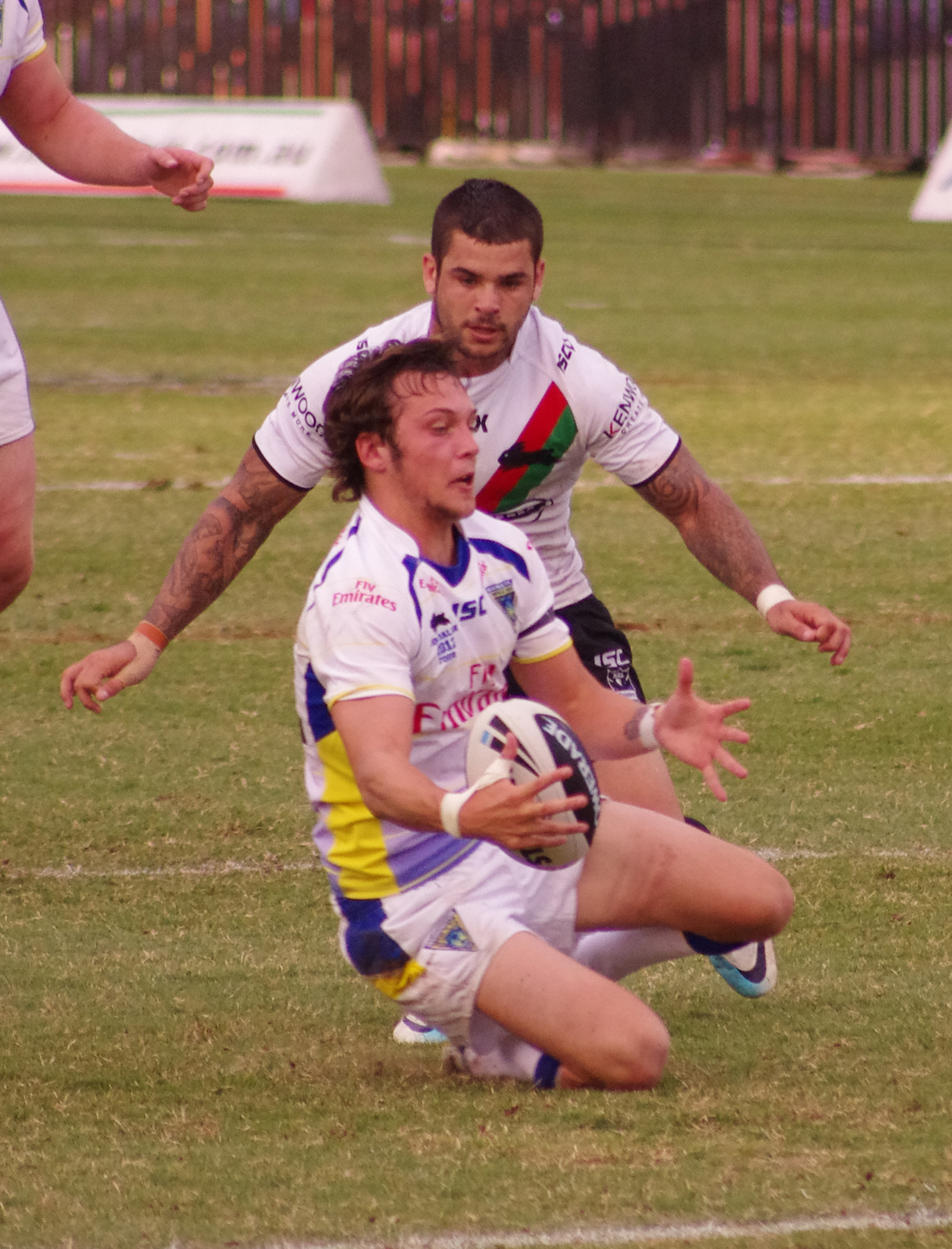 Gareth o'brien(front)